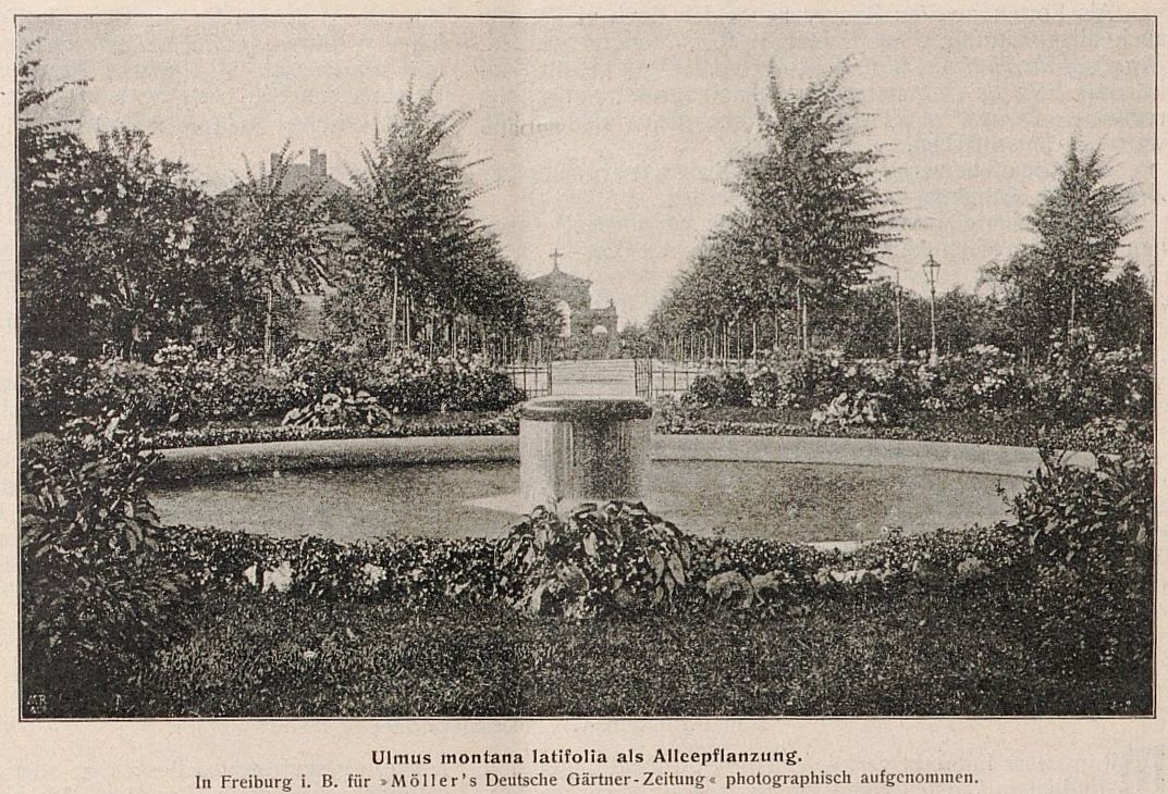 Ulmus montana latifolia as a road planting, Freiburg